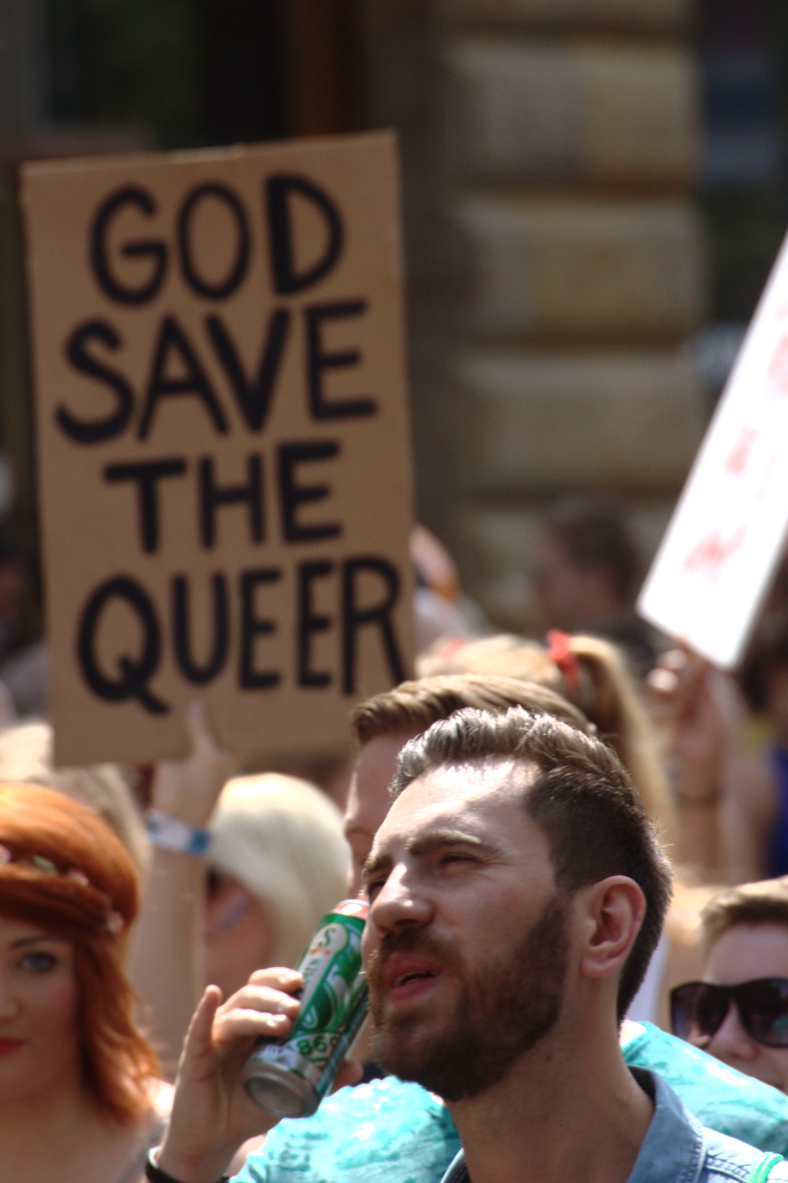 Prague Pride 2015 march in August 2015